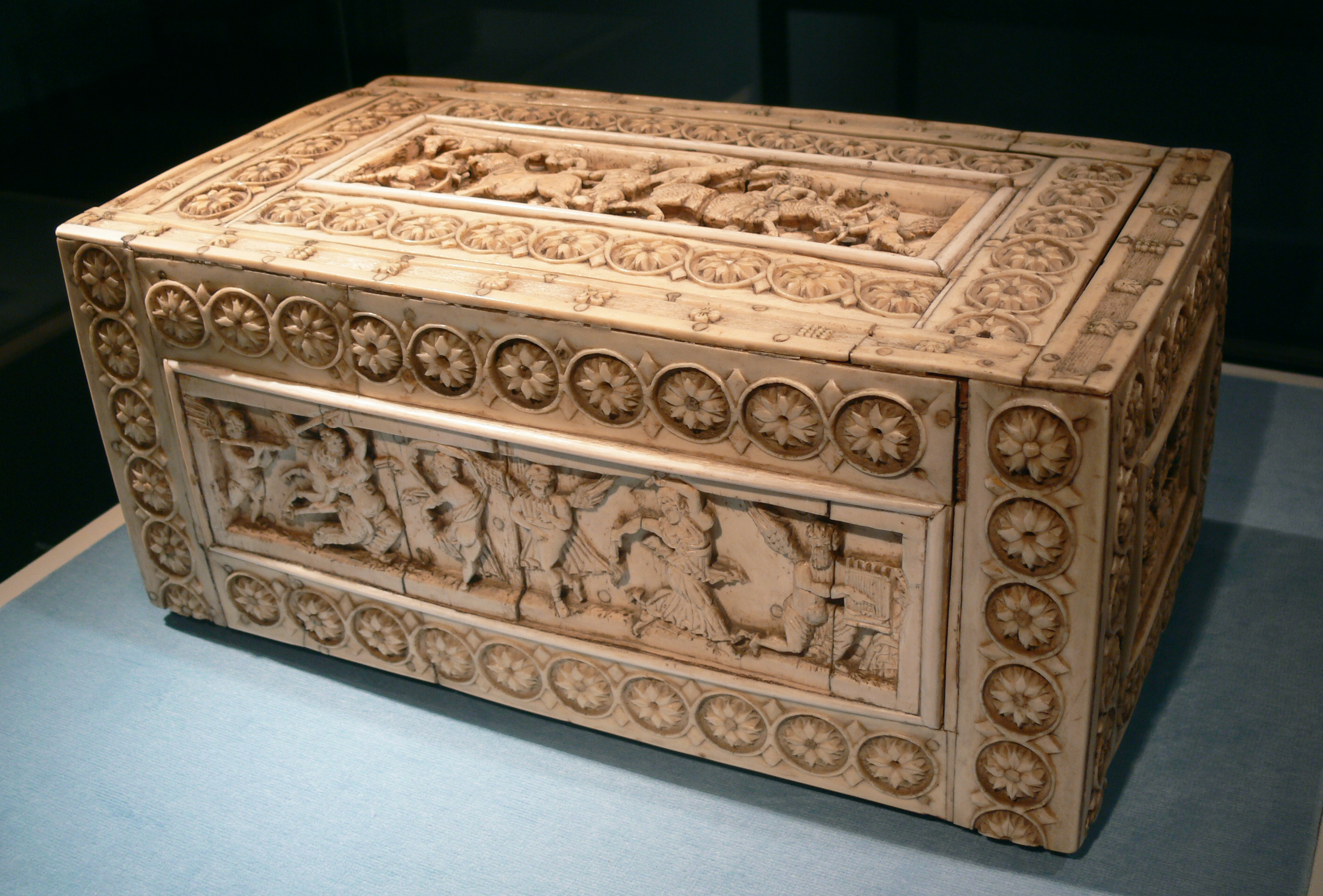 Reliquary, ivory; 11th century; side view; from St. George's Church, Piran, Slovenia. Collection: Archeological Museum, Pula, Croatia.